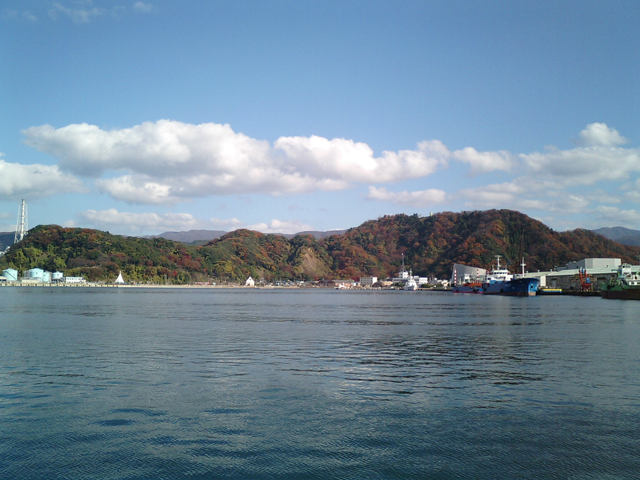 The view of Mt.Tezutsu in Tsuruga